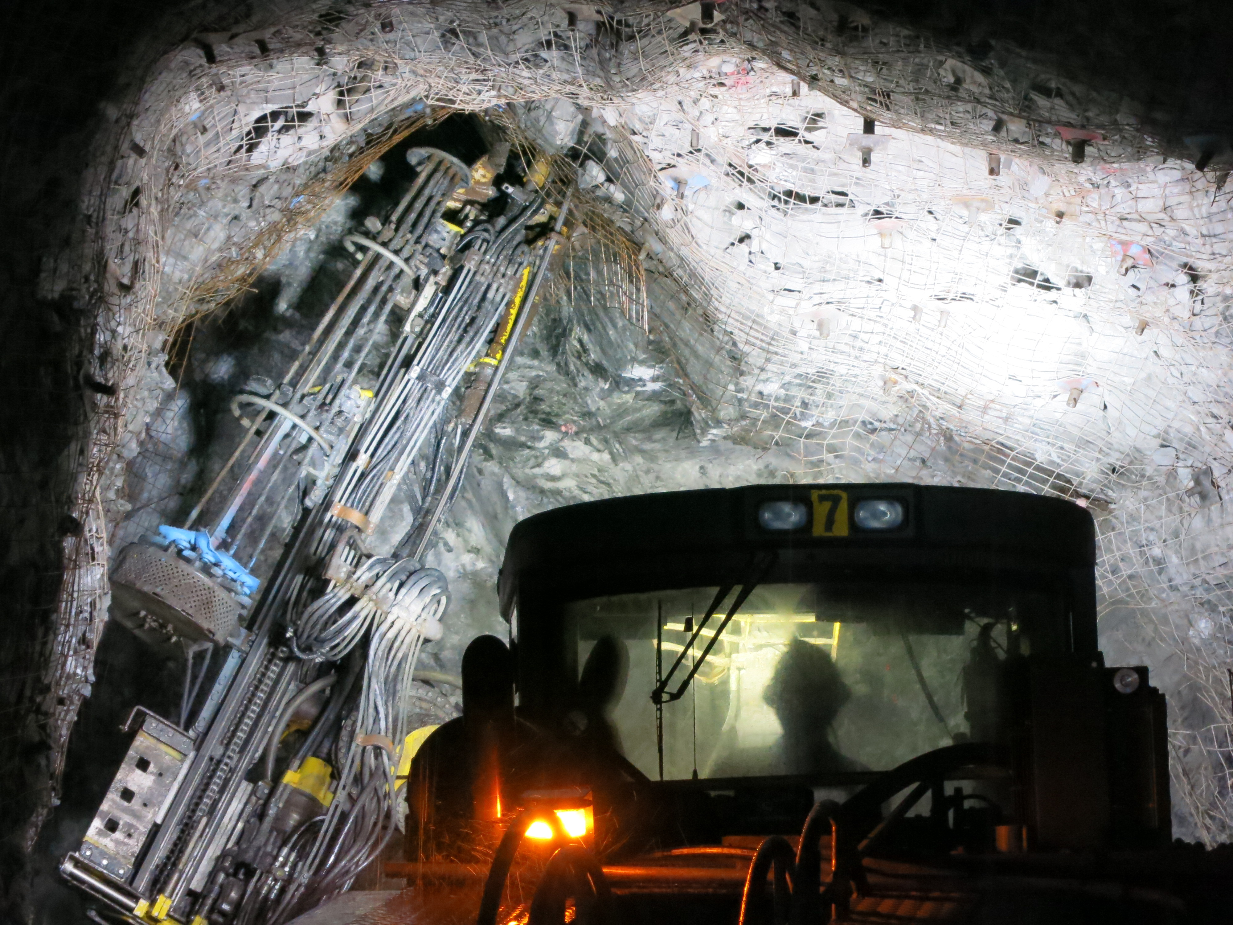 A highly automated, jumbo drill machine installs wire mesh support at Teck’s Pogo underground gold mine in central Alaska, USA. Advances in mining technology are enabling society to extract the resources we need for modern life (cars, computers…our entire infrastructure!) with fewer social and environmental risks. Cross-disciplinary research at the University of Exeter Camborne School of Mines is developing the future technologies to extract copper, platinum, industrial minerals and minor metals such as indium and cobalt.